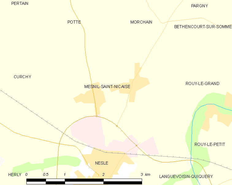 Map of French municipality Mesnil-Saint-Nicaise